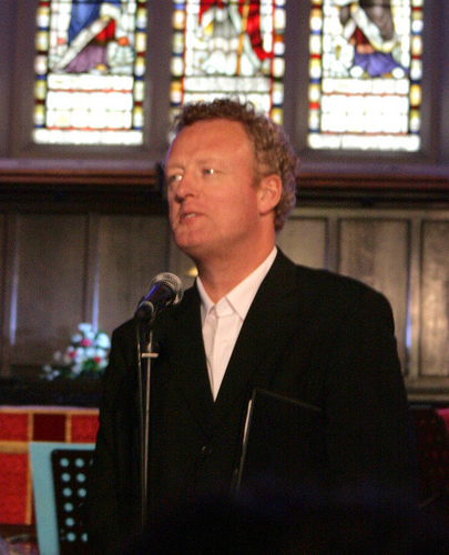 Howard Goodall at St. John the Baptist Church in Devon, United Kingdom.